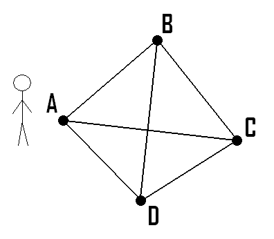 "Given the distances between any two points, what is the shortest route a salesman can make from point A, visiting all points, and returning to point A? This is the Travelling Salesman problem, an NP-Hard problem in mathematics." I made this image to illustrate the "traveling salesman" problem. I put no restrictions on its use.